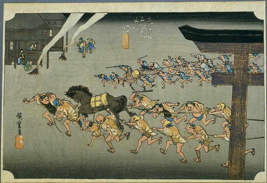 Miya on the Tokaido, ukiyo-e prints by Hiroshige